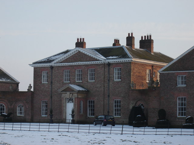 Houghton Hall, Houghton, East Riding of Yorkshire, England.Main Building in centre